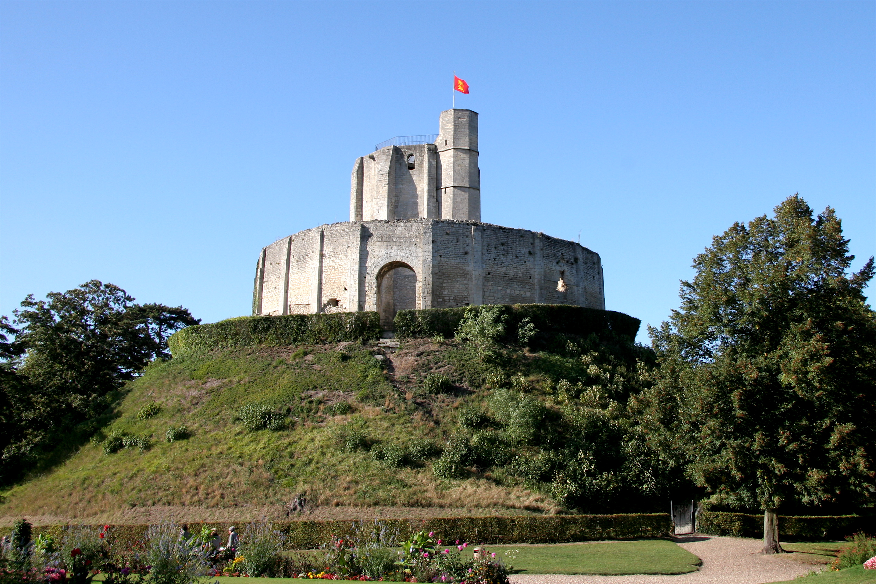 Chateau de Gisors, Normandy, France